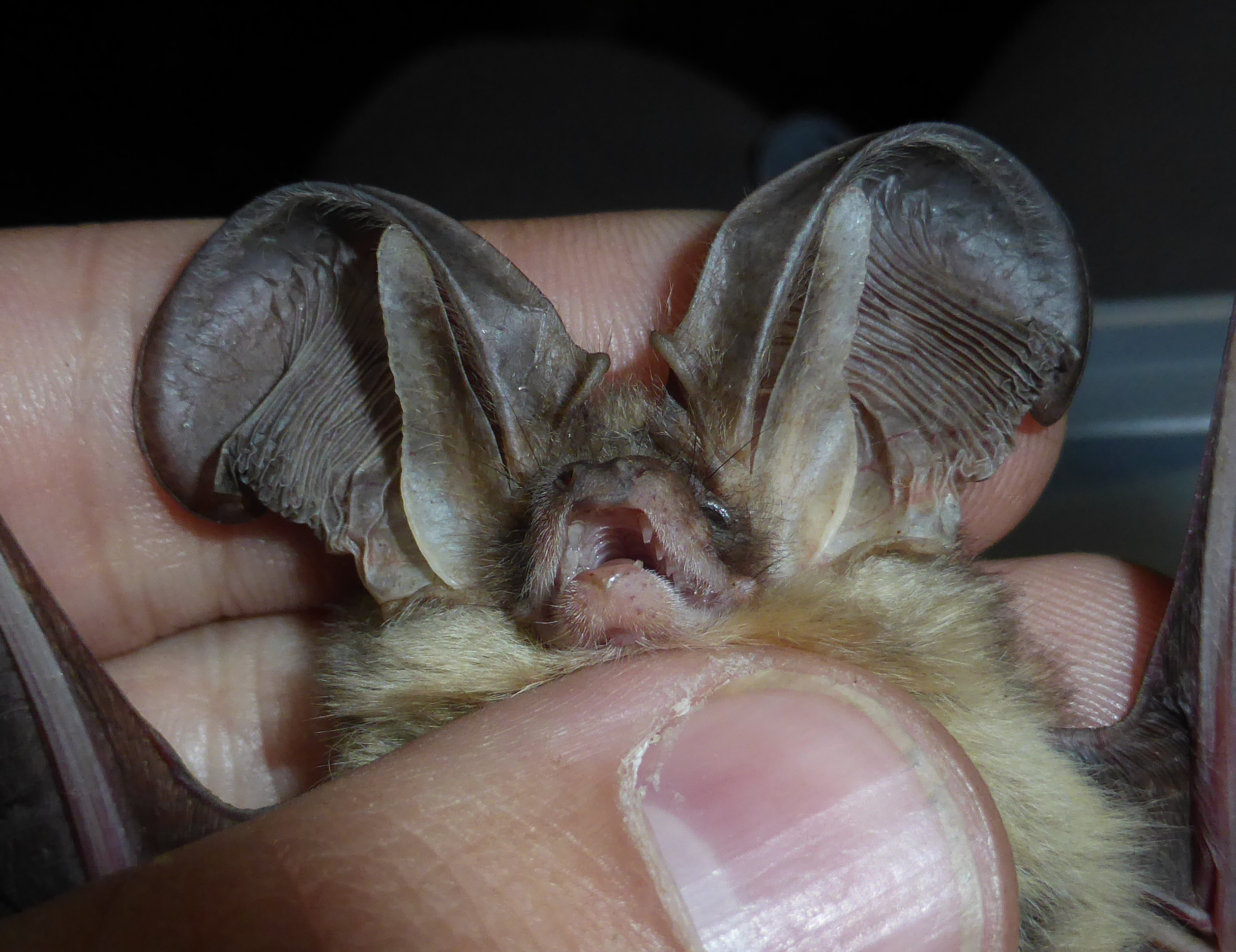 Close view of the lip pad of the bat Plecotus macrobullaris in Corsica (Vezzani, Rospa Sorba). Lactating adult female.